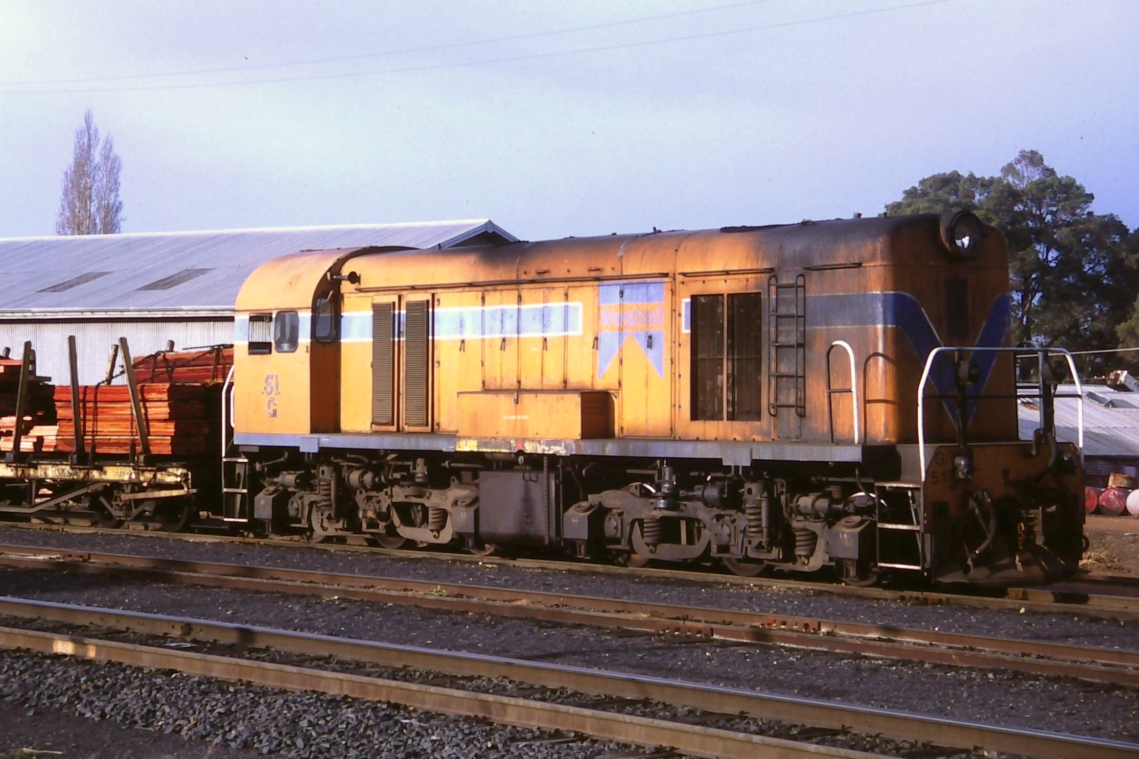 Ex-Midland Railway of Western Australia G class locomotive no G51, in Westrail orange and blue livery, at Manjimup railway station, Western Australia, with a mixed goods train.G51 was built in English Electric's Australian factory in Rocklea, Queensland. It was basically a British Rail Class 20 fitted with cape gauge wheelsets, Western Australian style headlights, and a few other minor body alterations. The very last locomotive to be acquired by the MRWA, it entered service in May 1963, less than a year before the company's assets and operations were taken over by the Western Australian Government Railways (WAGR) (later renamed Westrail). After being repainted into the WAGR green and red livery in 1968, and later still into the Westrail livery seen here, the locomotive remained in service until May 1990, and was scrapped in January 1991.Kodachrome slide converted by Kaiser Baas Photo Maker Pro into a digital image.